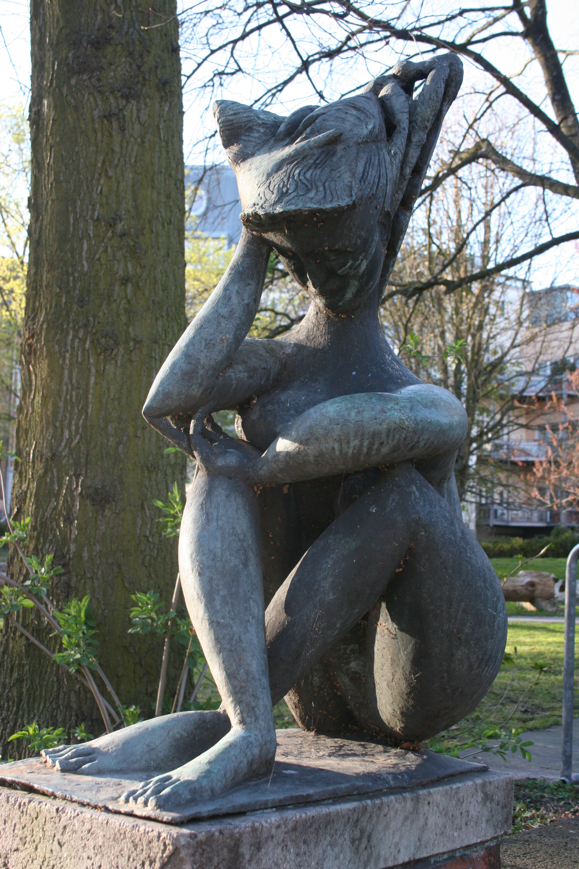 Sculpture from Pericle Fazzini, "La Sibilla", his contribution to the documenta II in Kassel 1959, a copy made for Kiel, Germany 1961